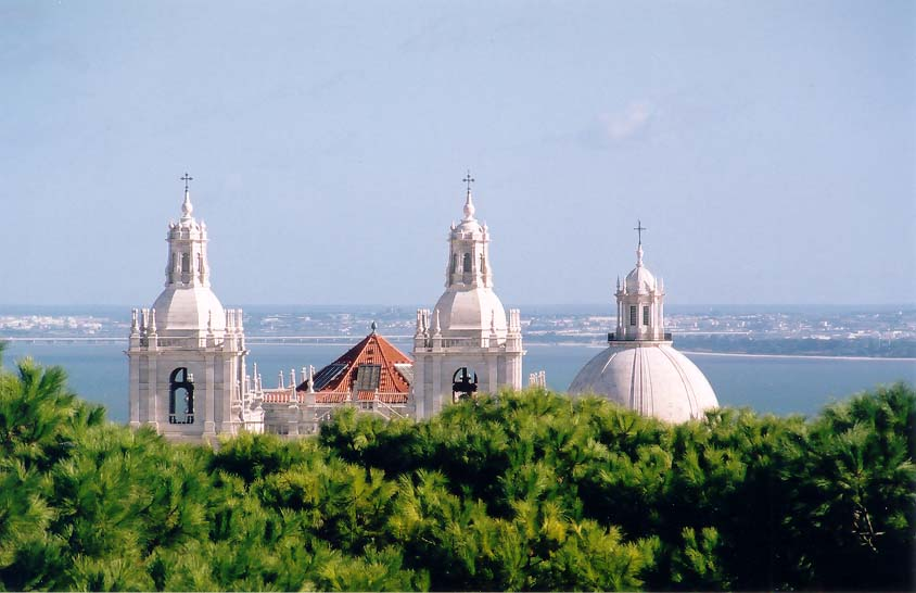 Lisbon from hill